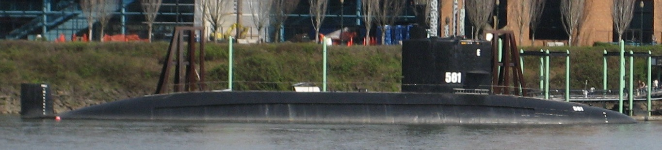 USS Blueback at OMSI Category:Images of Portland, Oregon